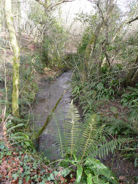 Stream near Bakesdown In a ferny wooded hollow.